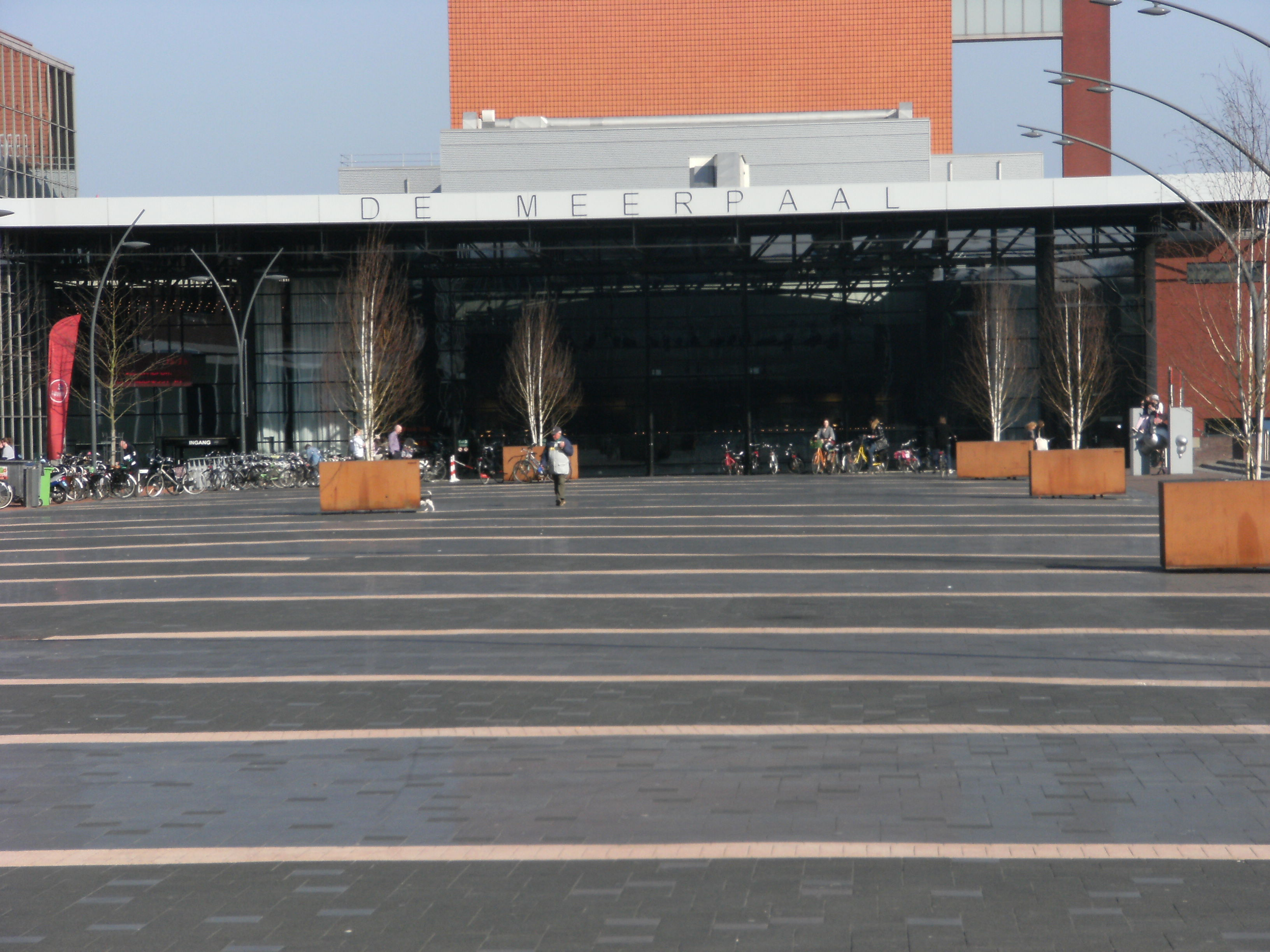 Facade Meerpaal in Dronten.